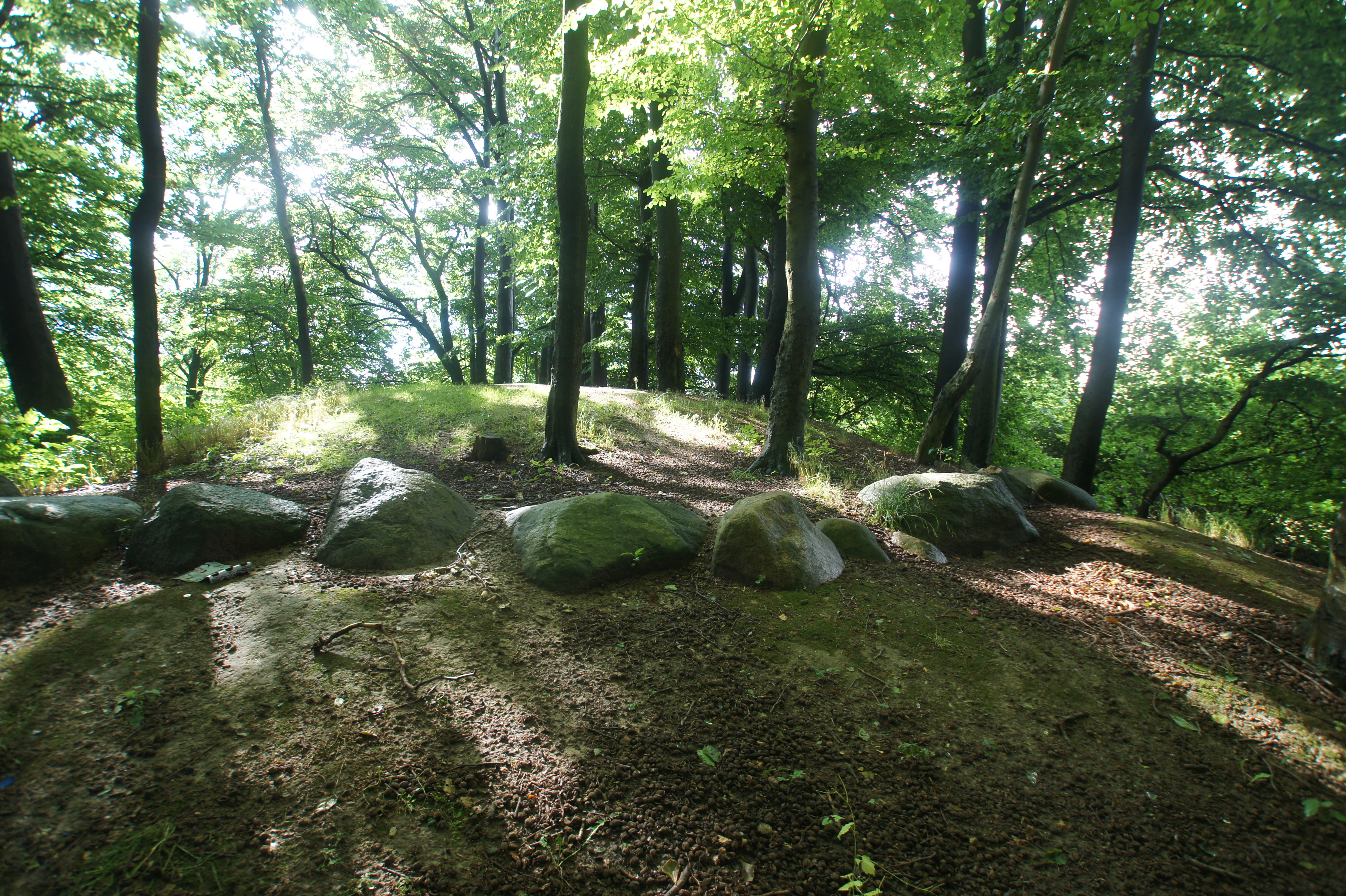 Hamburg (Langenbek), Germany: Tumulus